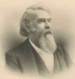 Kentucky Congressman Laban T. Moore